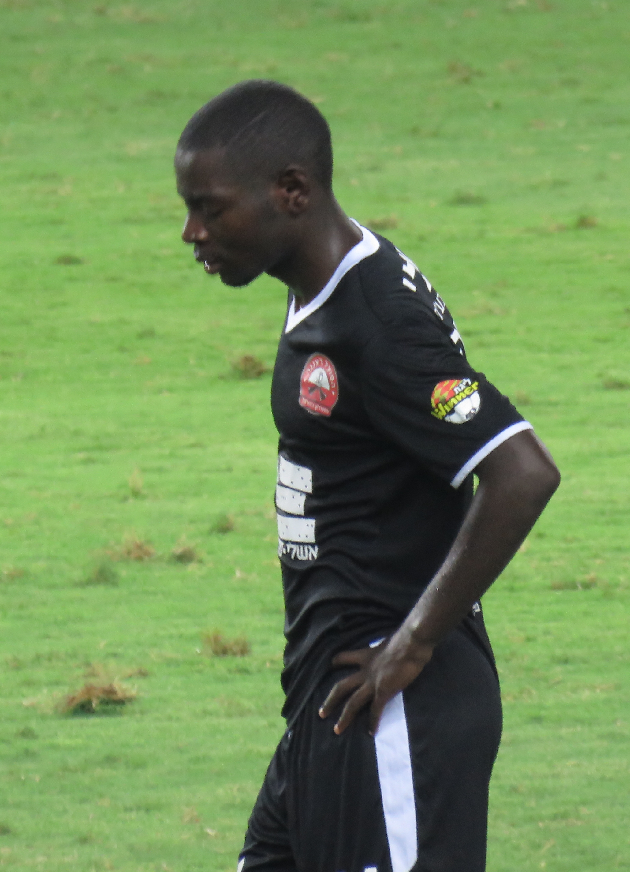 Hapoel Ra'anana vs. Hapoel Be'er Sheva - September 12, 2015